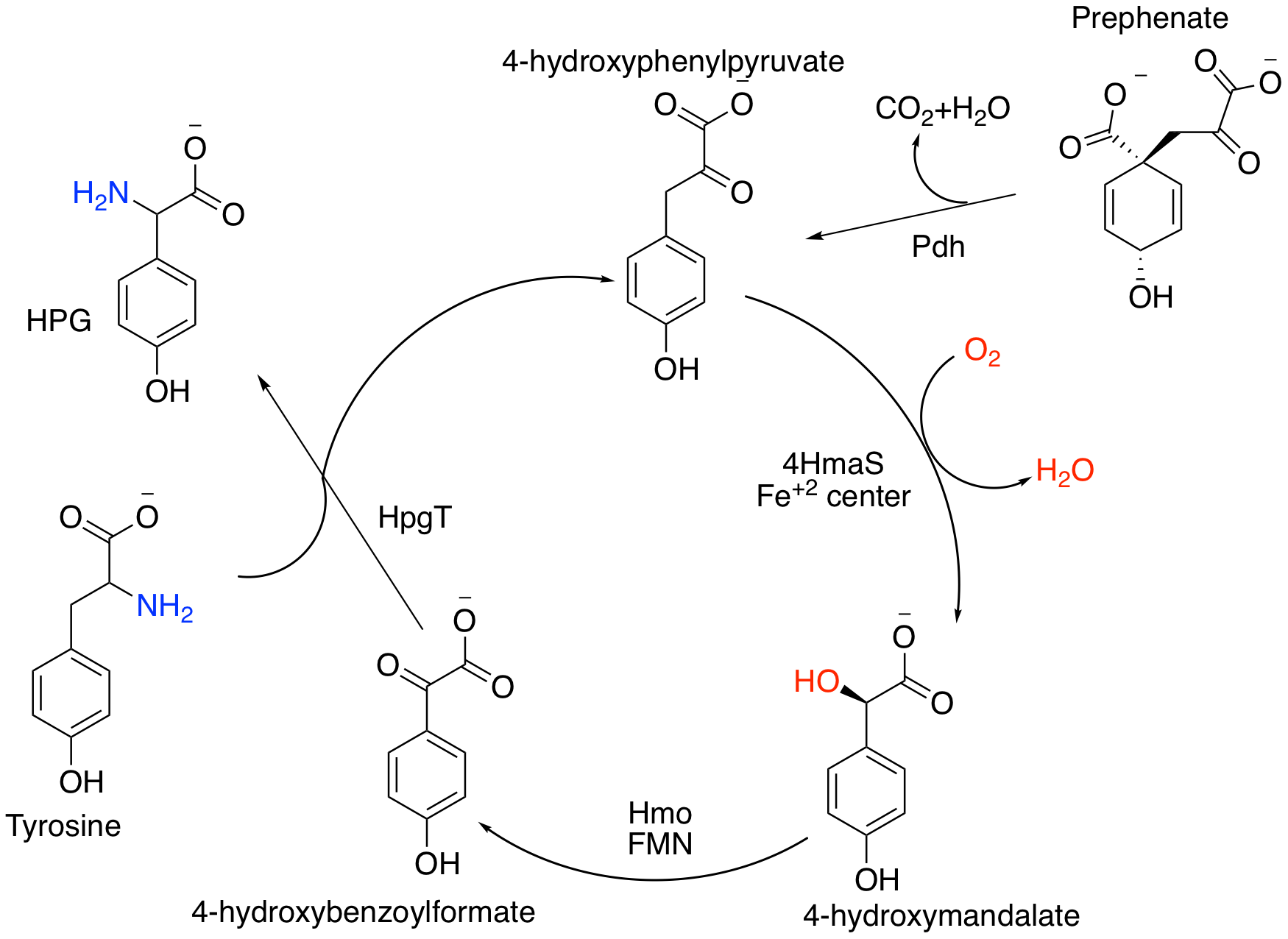 A possible synthetic cycle with HPG as the final product.